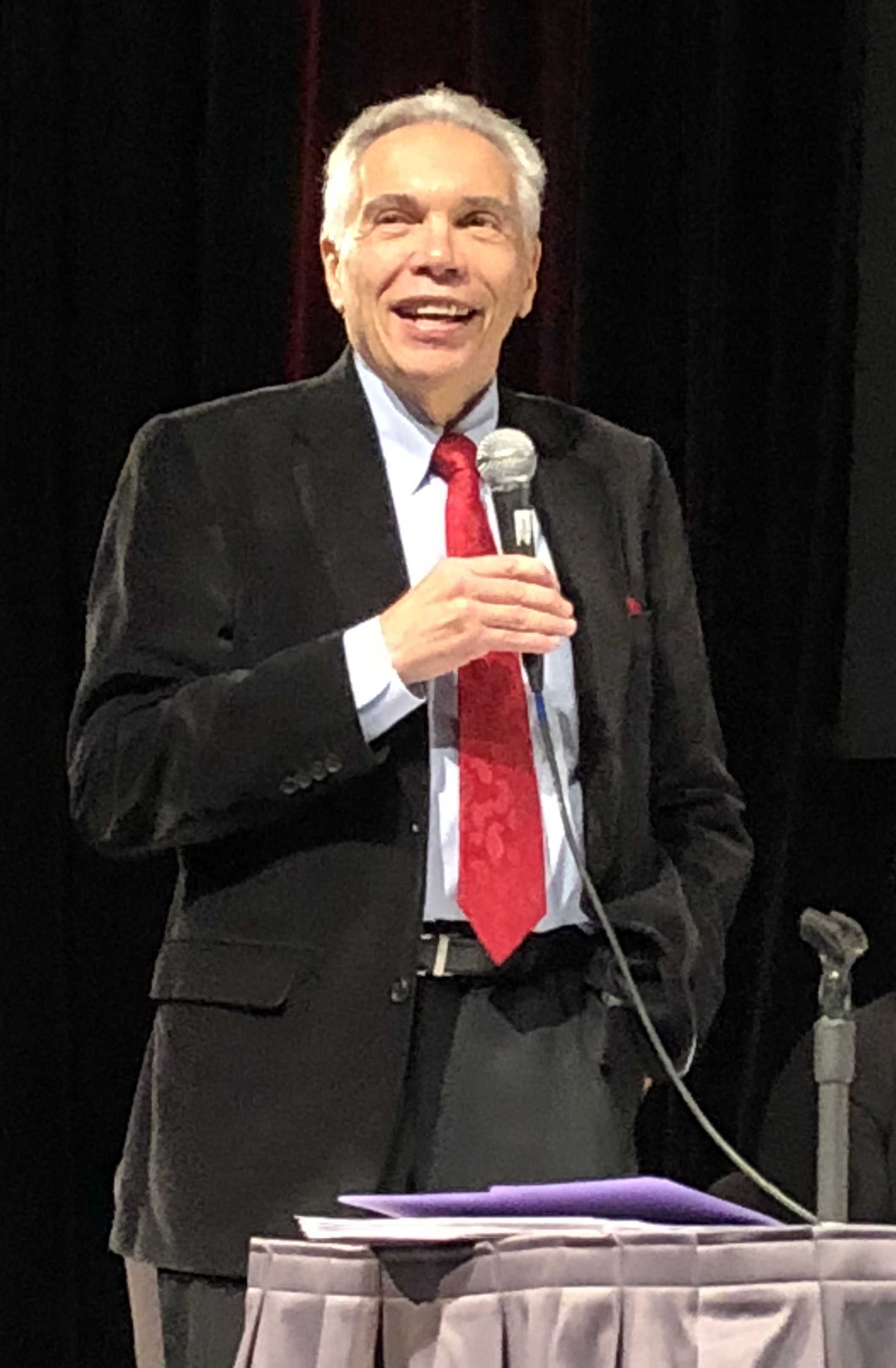 Prof. Joseph Schwarcz at the 2018 Trottier Public Science Symposium.